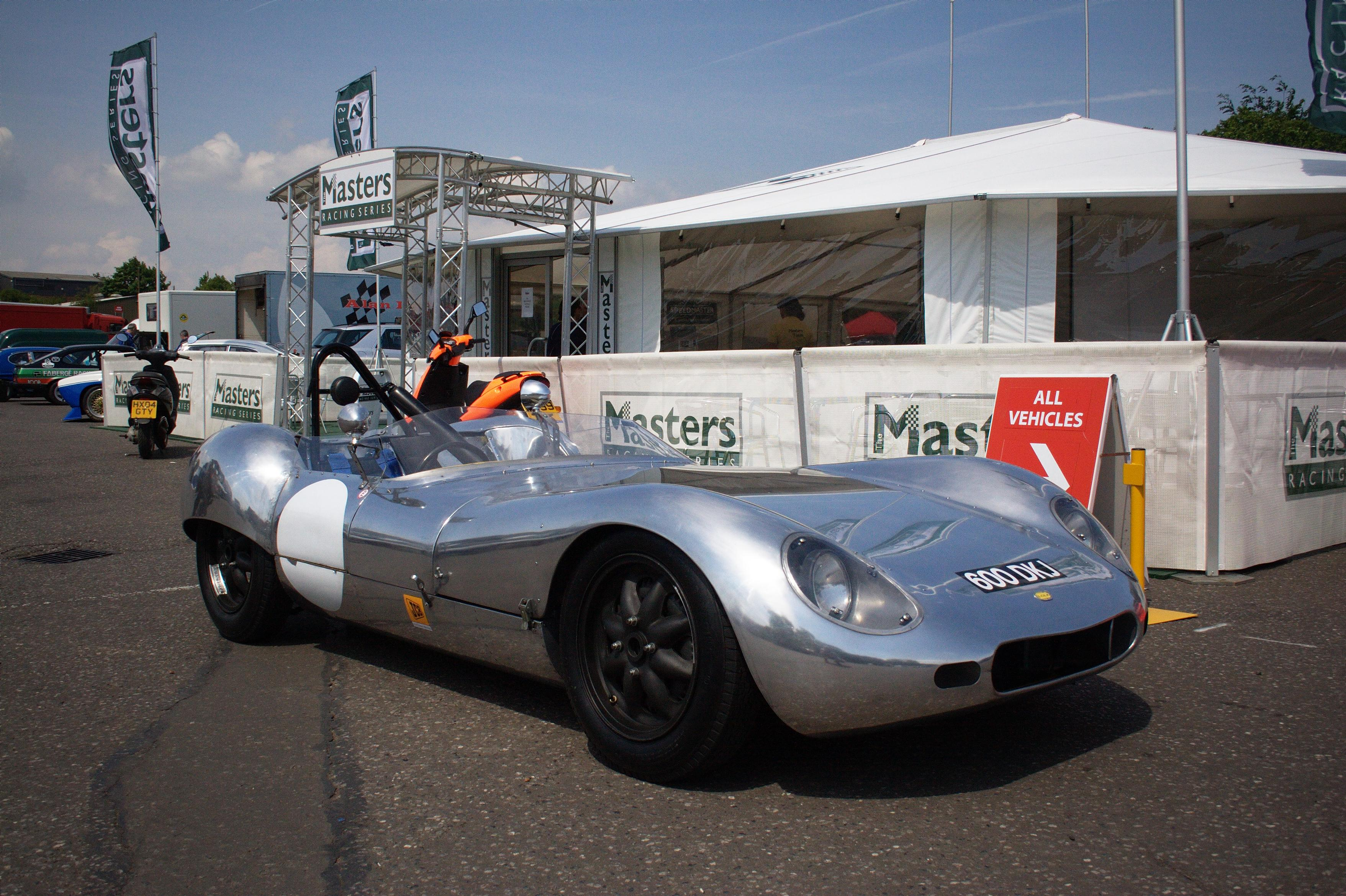 The 1958 Lola prototype race car (body by Maurice Gomm), at Brands Hatch in May 2008